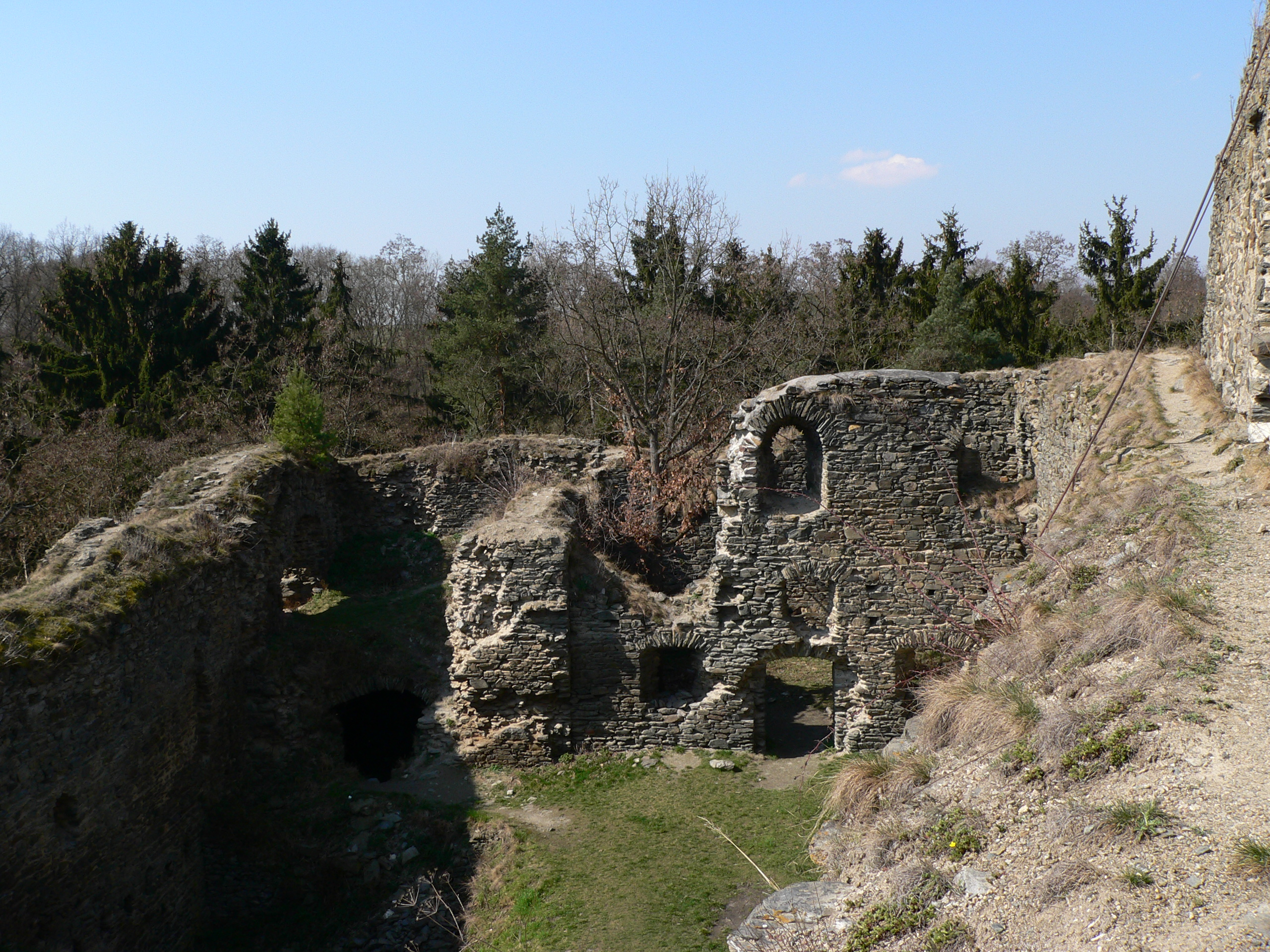 Ruiny hradu Buben / Ruins of Buben castle